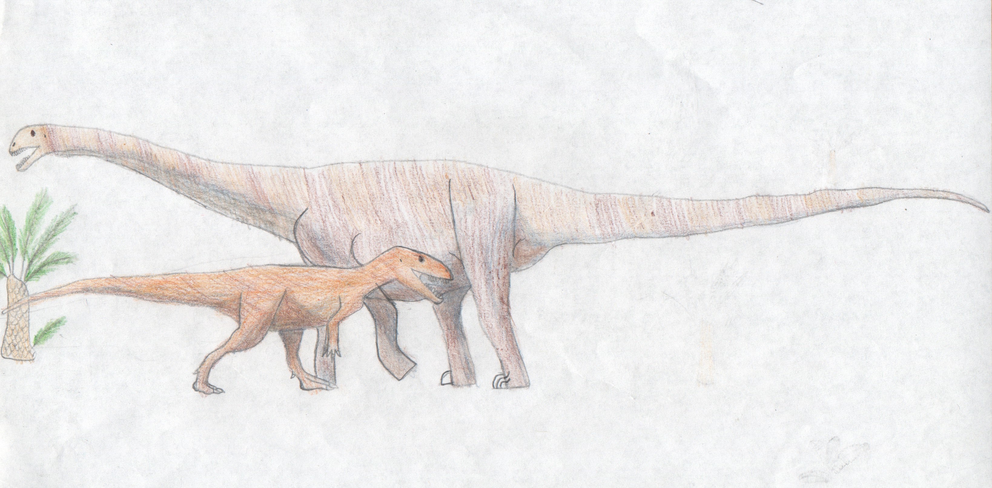 Life restorations of Megalosaurus bucklandii and Cetiosaurus.